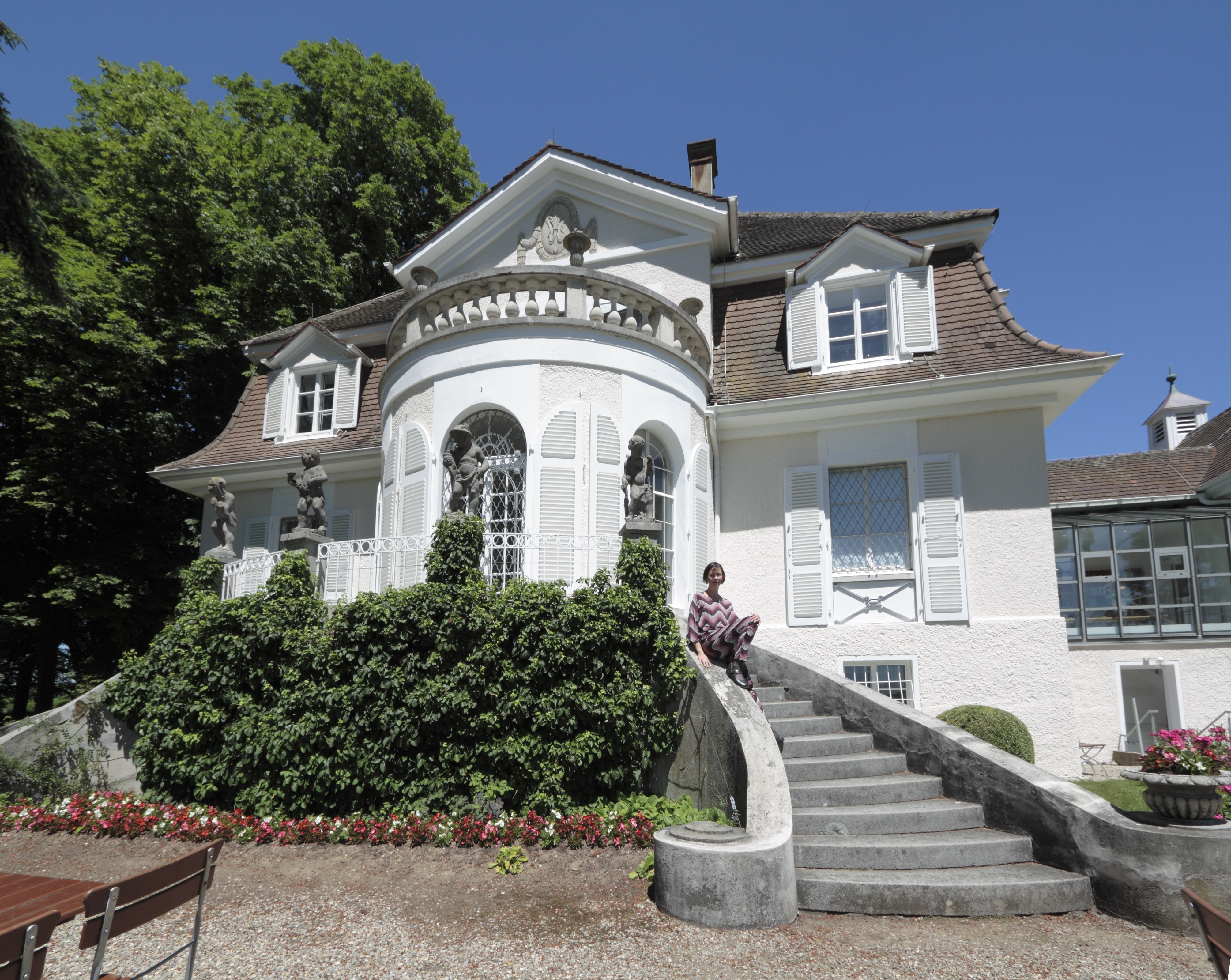 Museum Villa Rot, view on outside staircase